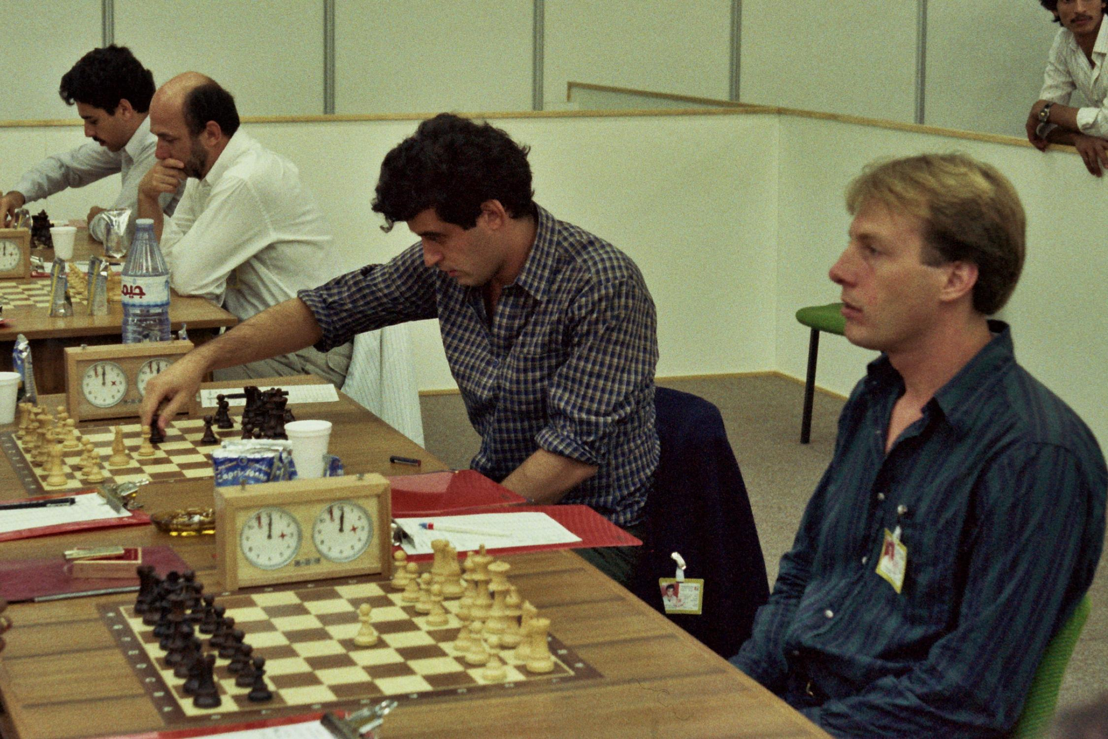 Chess Olympiad 1986 (Yasser Seirawan, Lubomir Kavalek, John Fedorowicz, Nick de Firmian), Photographer Gerhard Hund.